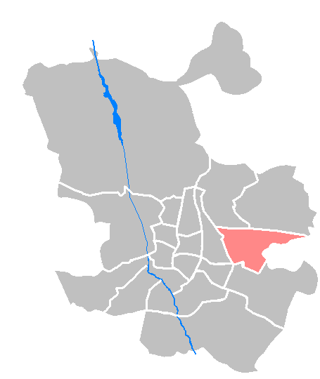 Locator maps of districts in Madrid: Maps - ES - Madrid - San Blas.PNG